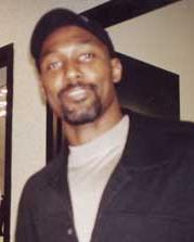 Karl Malone (a professional basketball player nicknamed "The Mailman").